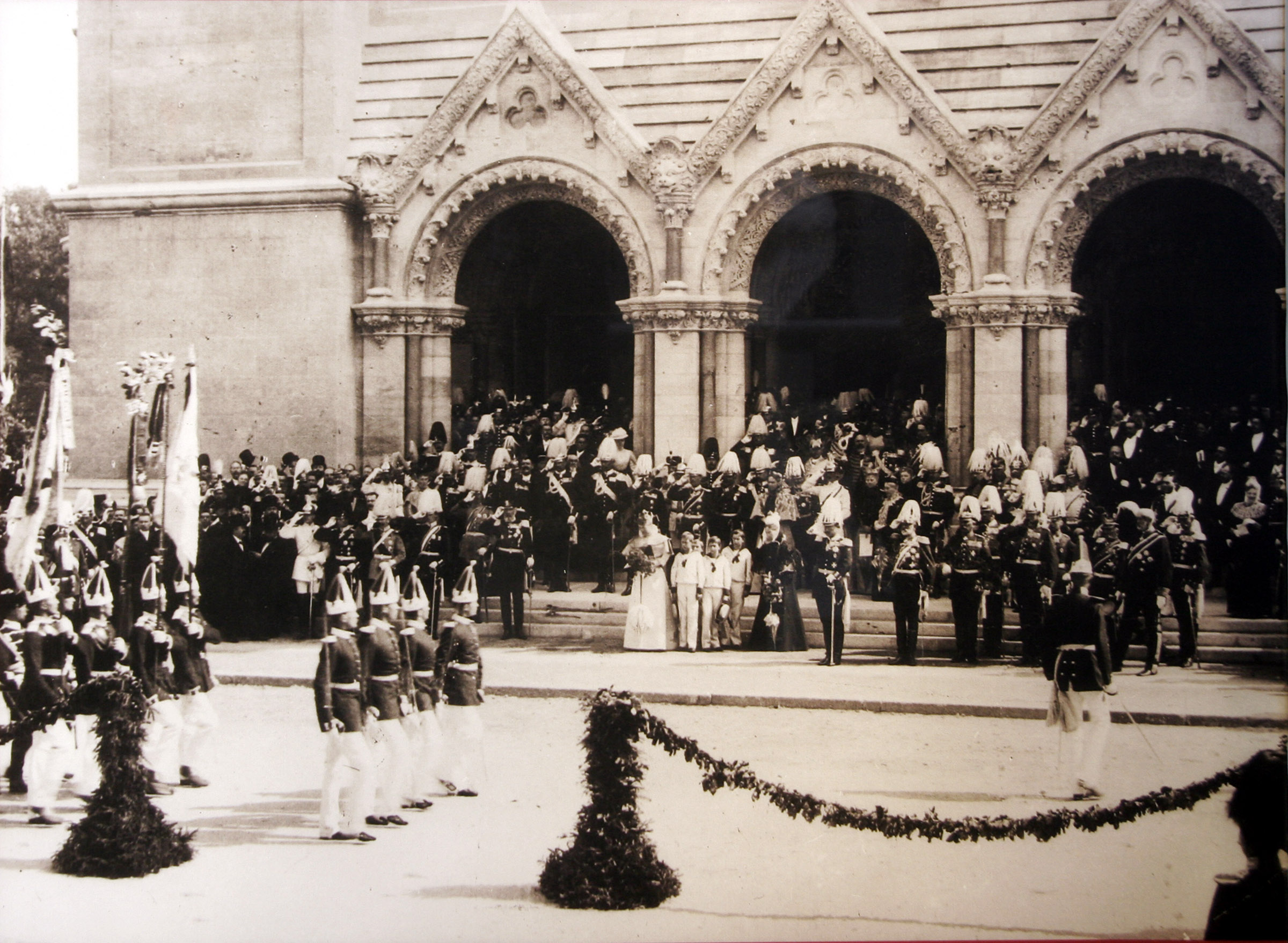 Inauguration Ceremony of the Kaiser Wilhelm Memorial Church in Berlin on September 1st, 1895